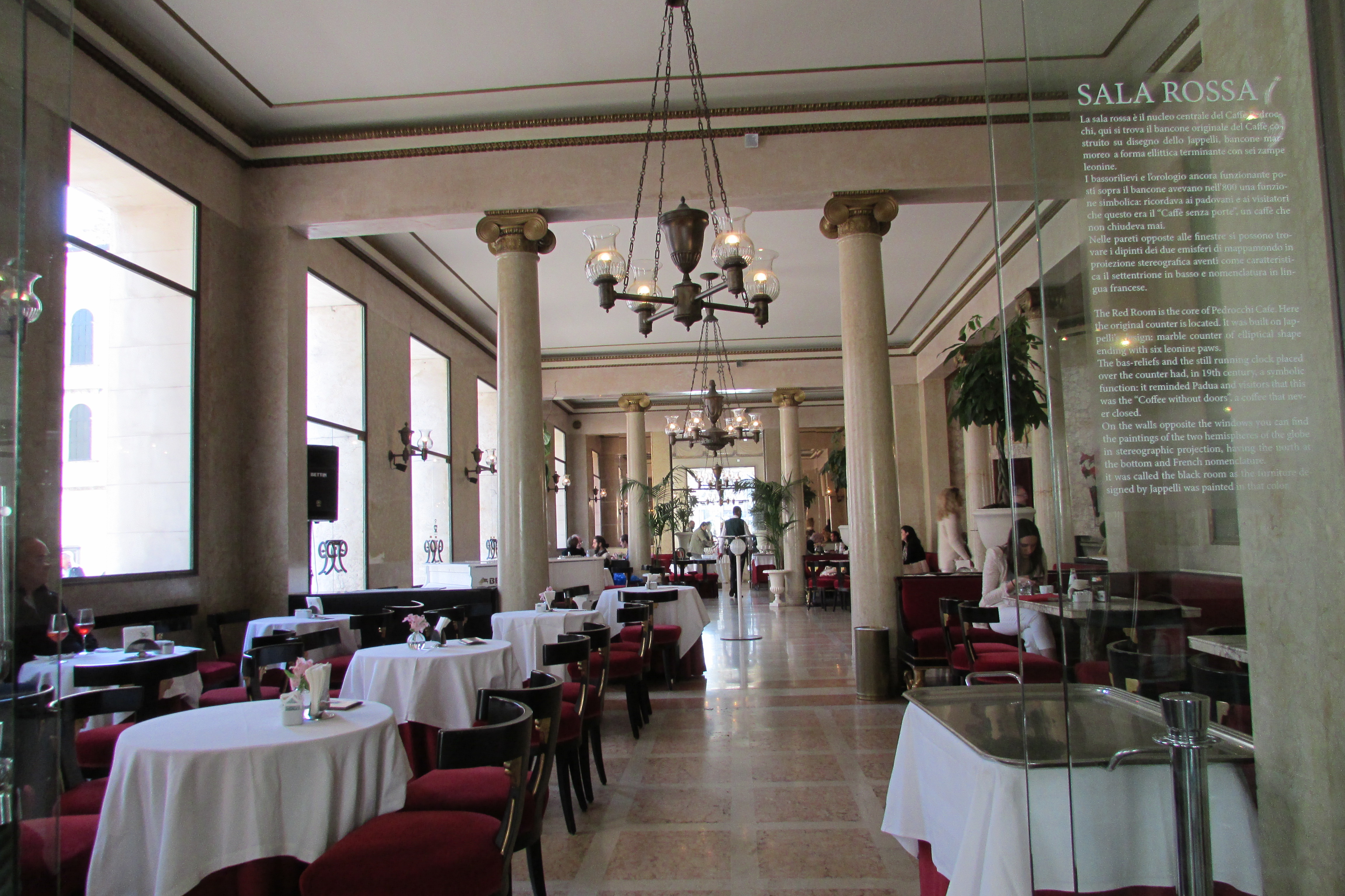 Red Room of the Caffè Pedrocchi, Padua, Italy.